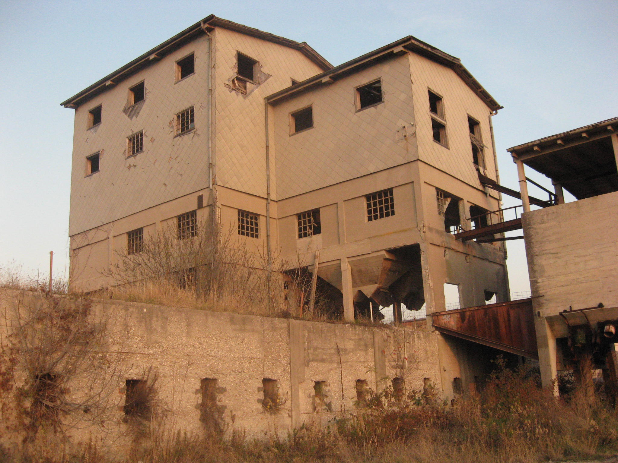 ex Coal Mine Sečovlje